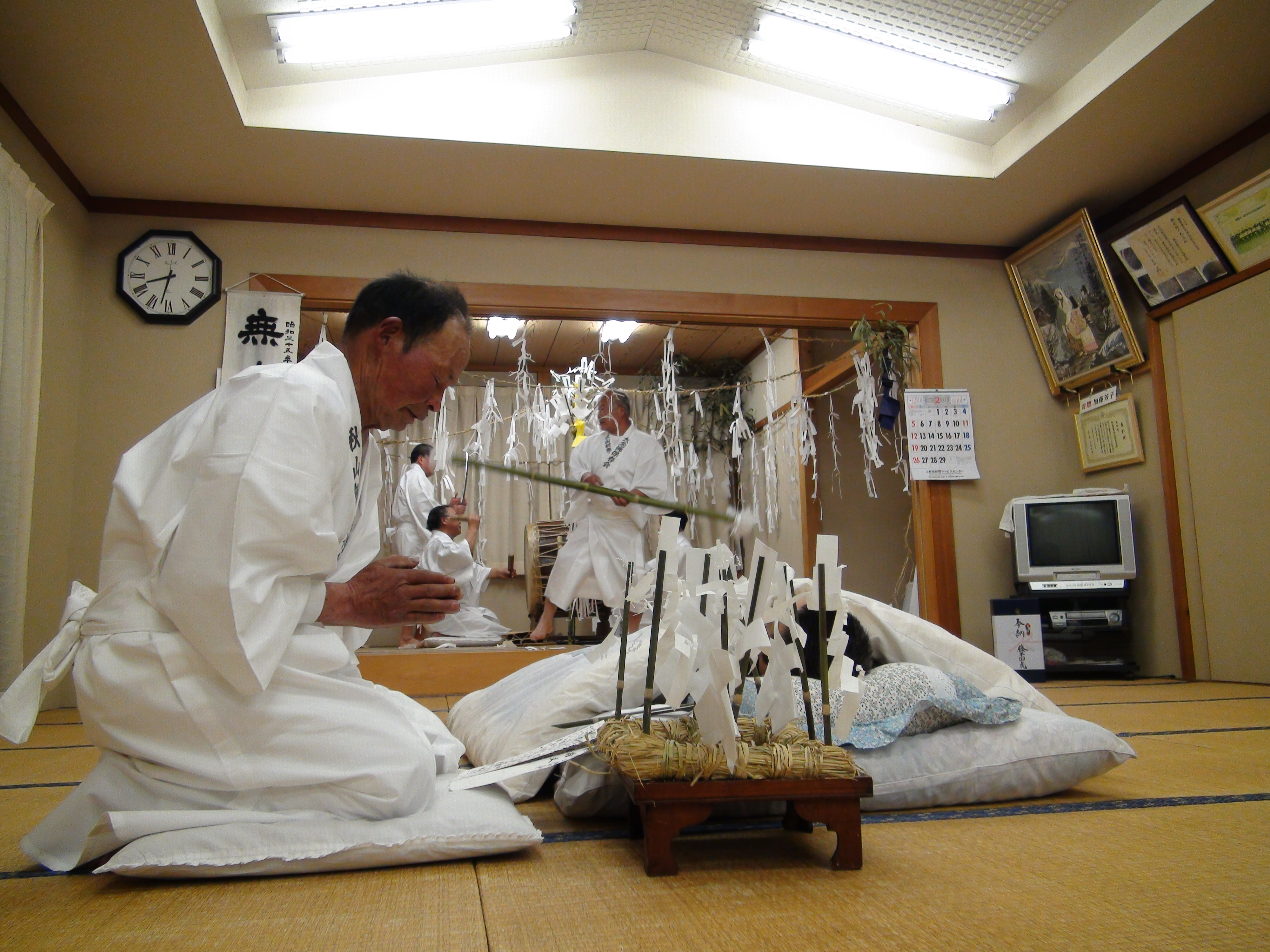 Mushono-Dainembutsu dance of Bupparai(a dance with an invocation to the Buddha)